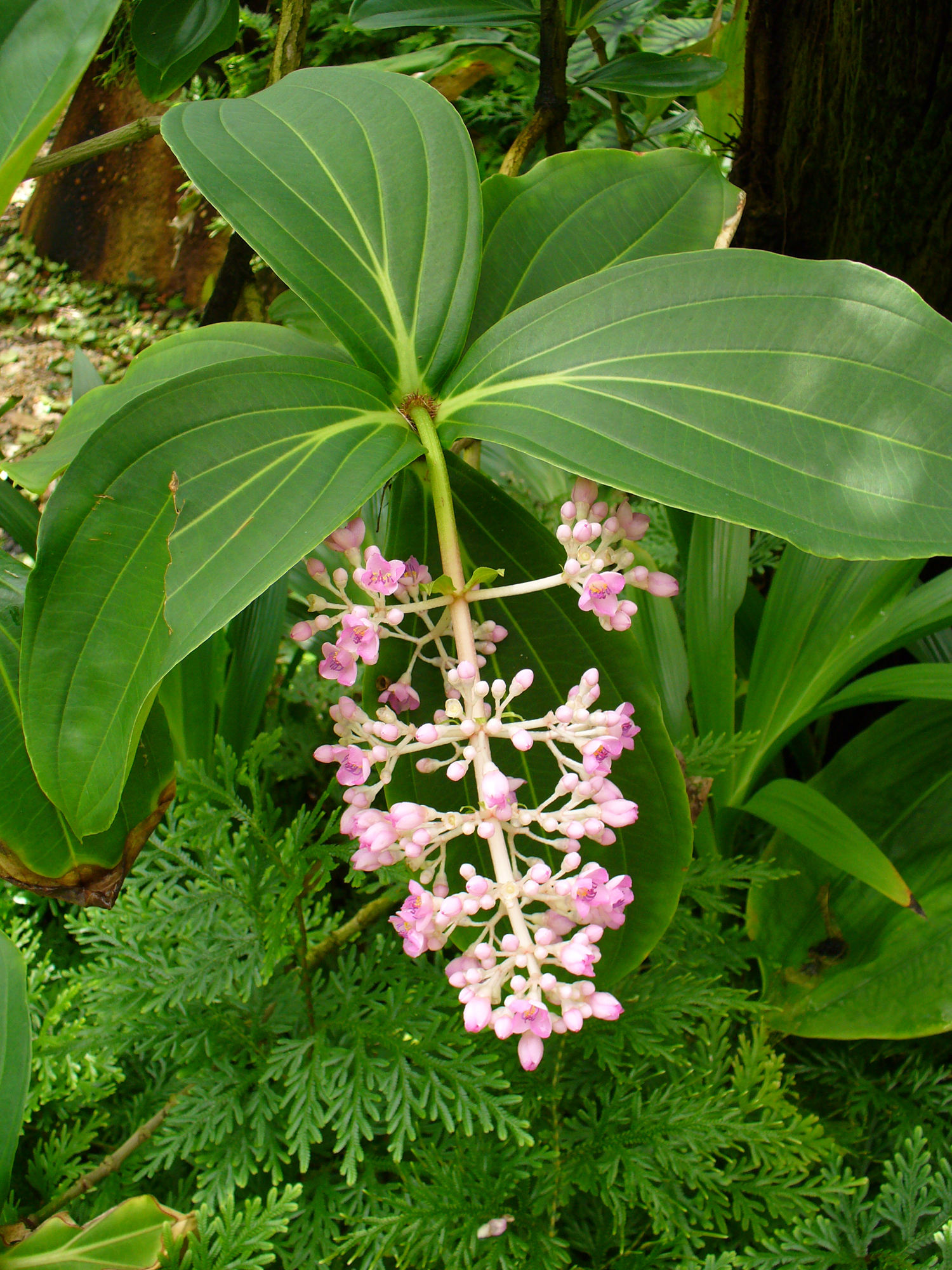 Medinilla myriantha Wertheim Conservatory, Florida International University campus, Miami, FL USA